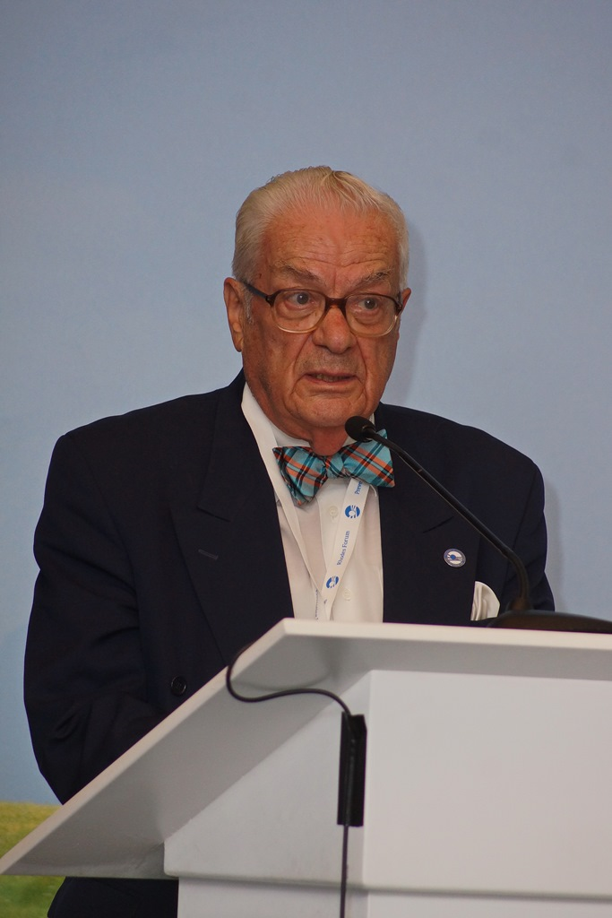 Türkkaya Ataöv at Rhodes Forum 2014 "Preventing World War Through Global Solidarity: 100 Years On"